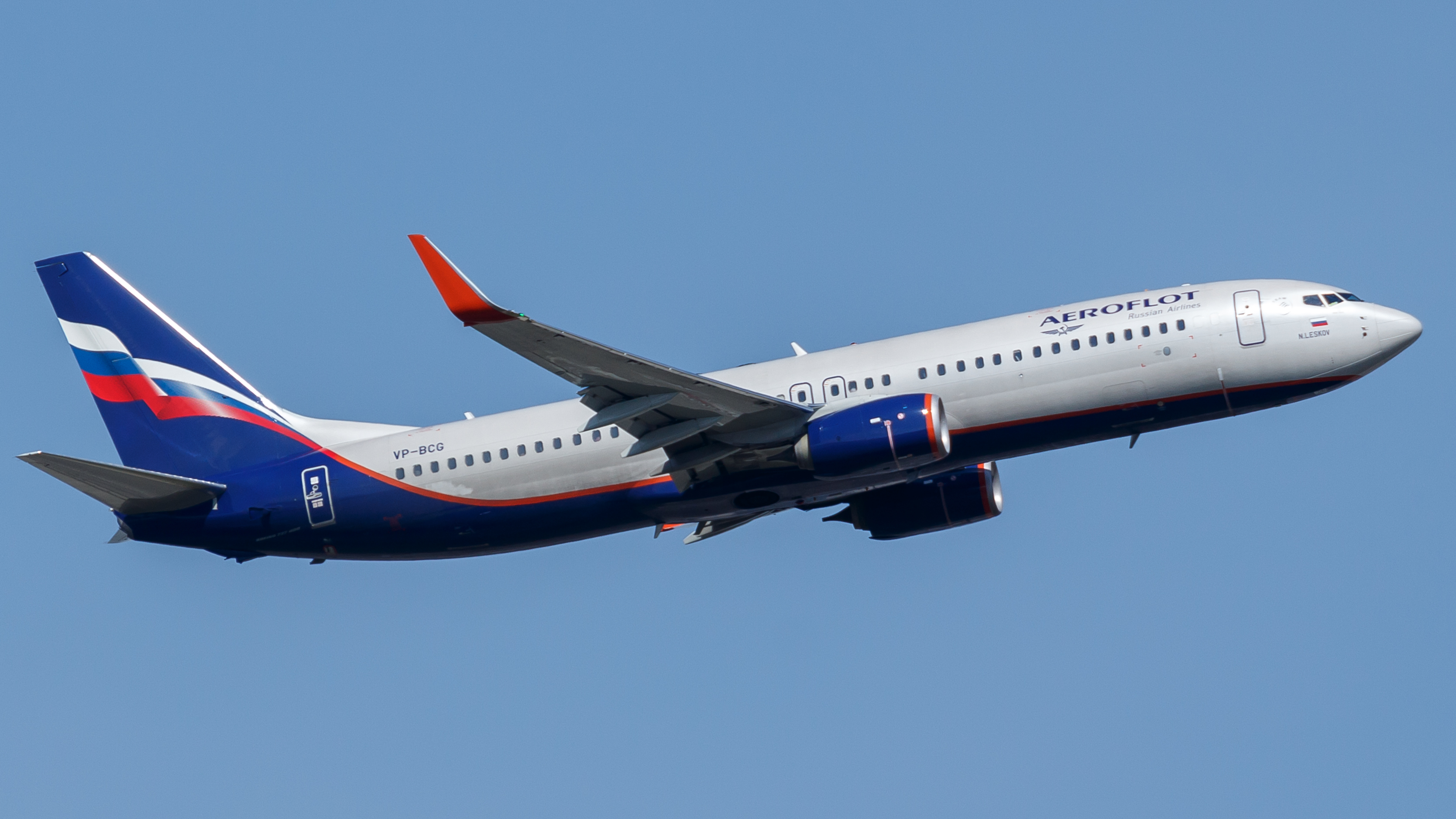 Frankfurt Airport